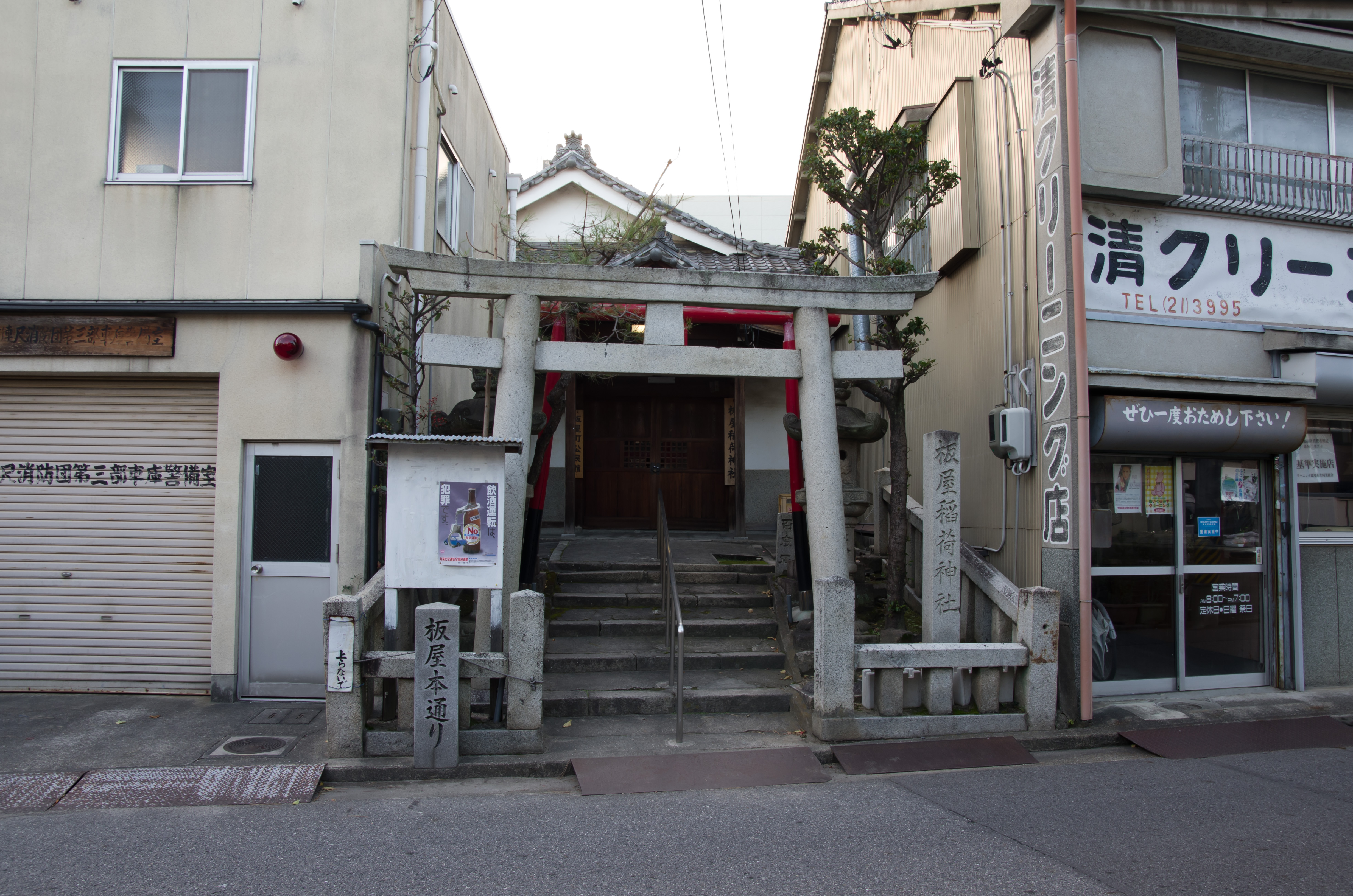 Itaya Inarijinja Shrine and Itaya-hondori Ave. Sign in Okazaki, Aichi, Japan